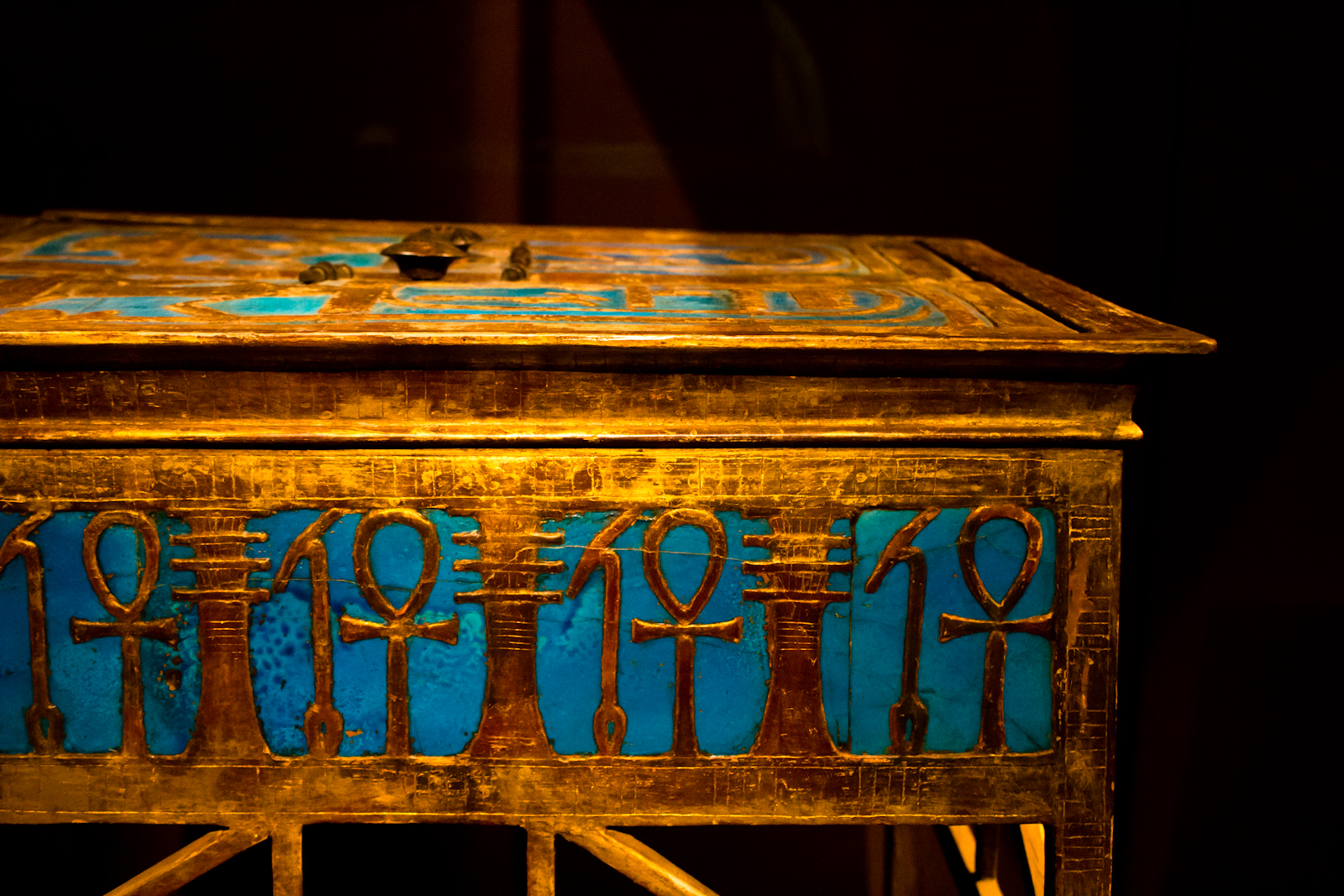 Thebes, Tomb of Yuya and Tuya, Valley of the Kings / KV 46 New Kingdom, 19th Dynasty, Reign of Amenhotep III (1410-1372 BCE)